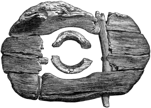 Wooden wheel, found in Blair-Drummond Moss. In the original book was catalogued as a shield, but scholars agree it it a wheel. The first evidence of wheeled transport in Britain. This engraved was publishied in Highland Targets and Other Shields of James Drummond.